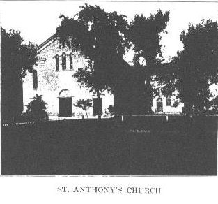 An early photograph of St. Anthony's Catholic Church in Davenport, Iowa.